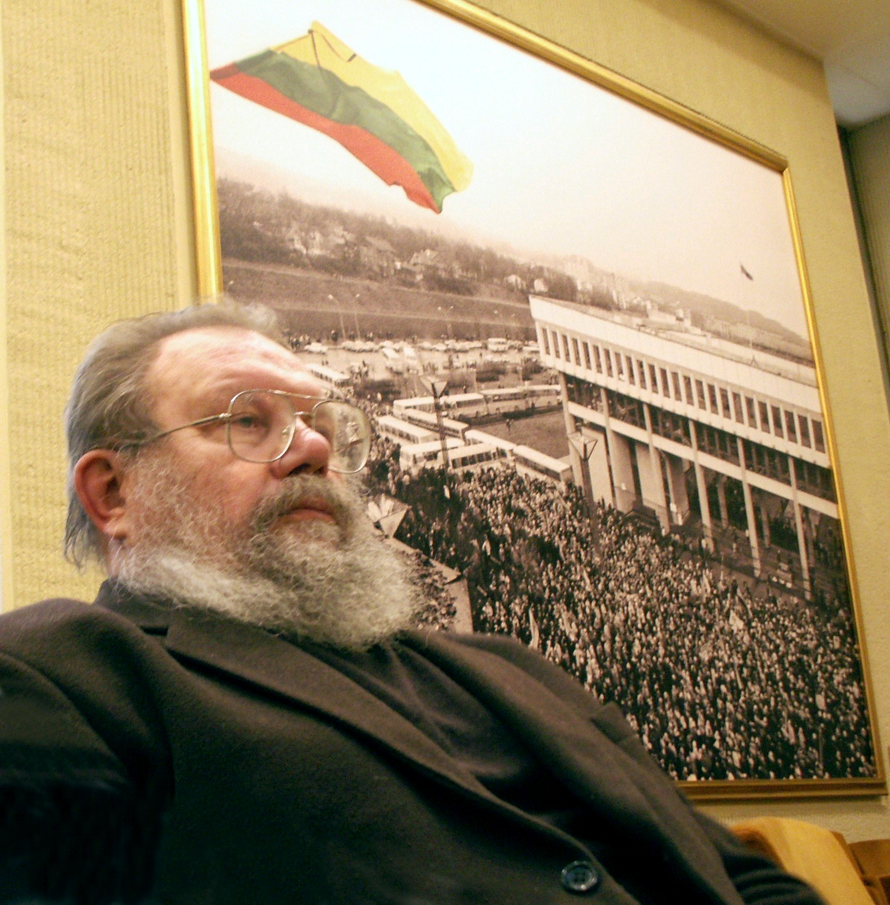 Writer Kazys Almenas (1935), Lithuania